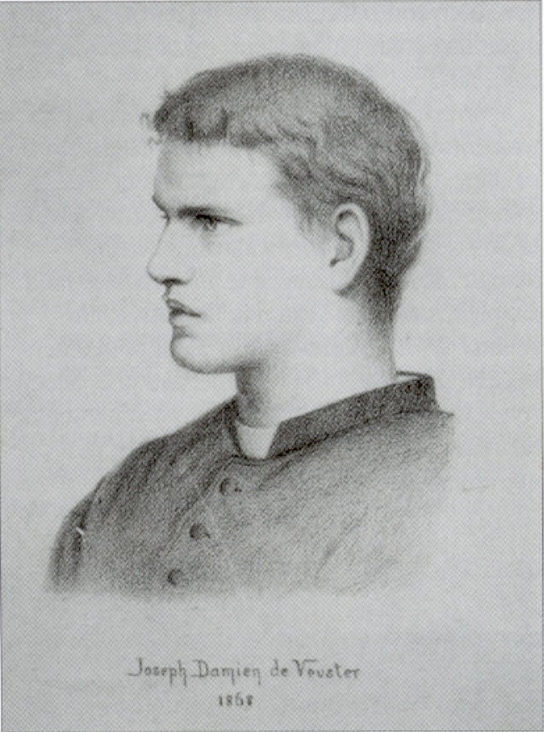 Portrait of Father Damien, by Edward Clifford, graphite on paper, 1868, Honolulu Academy of Arts